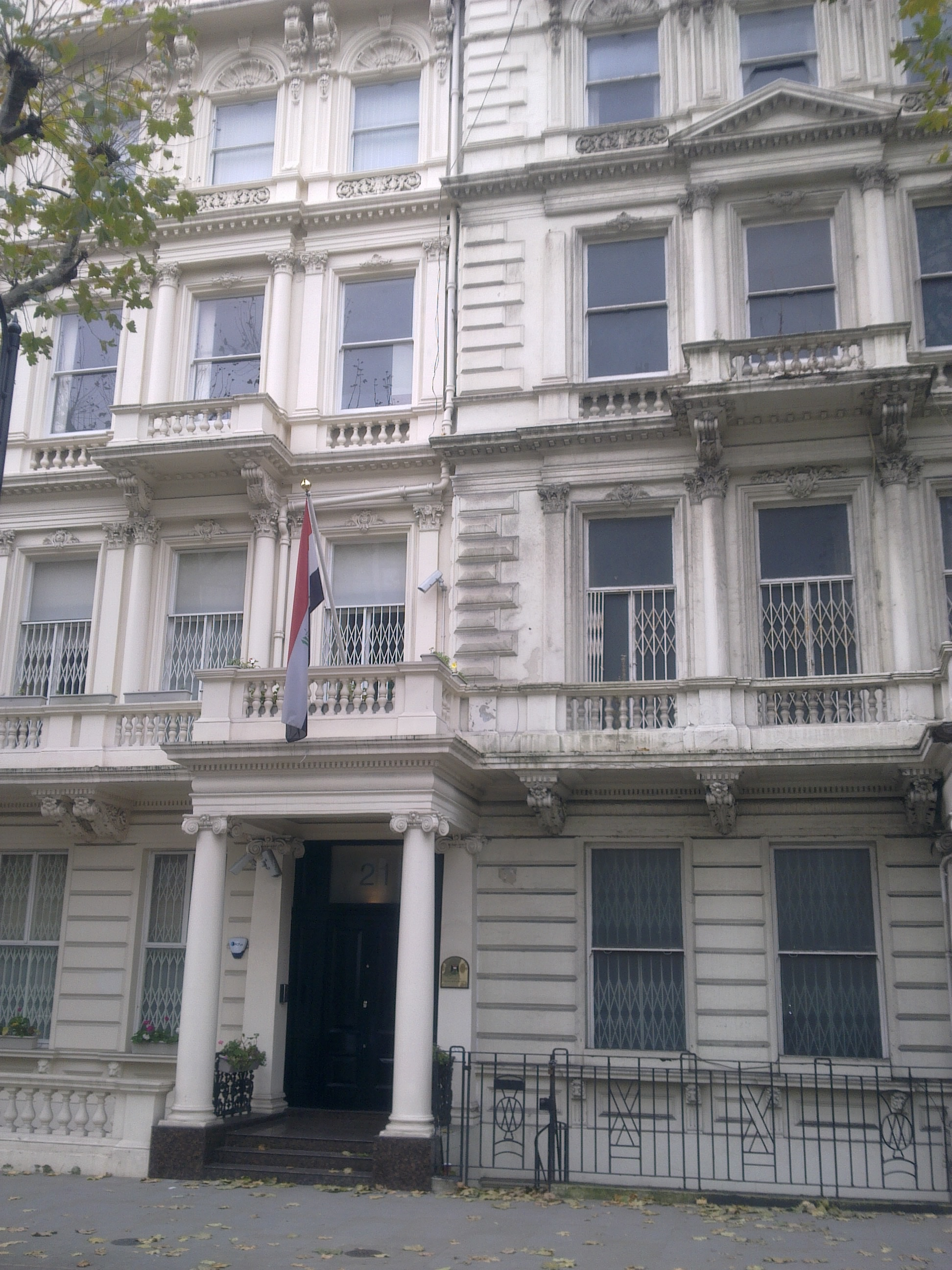 Embassy of Iraq in London 1